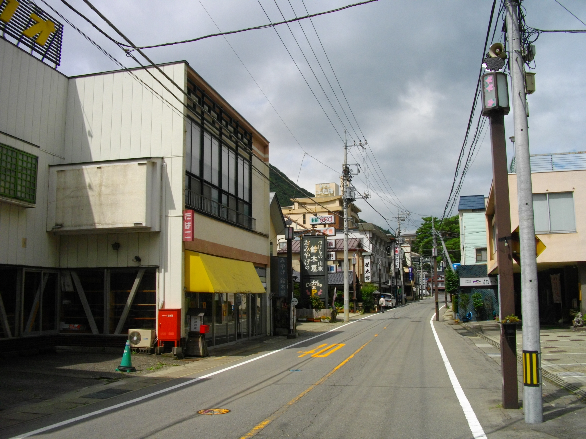 Shiobara Monzen Onsen